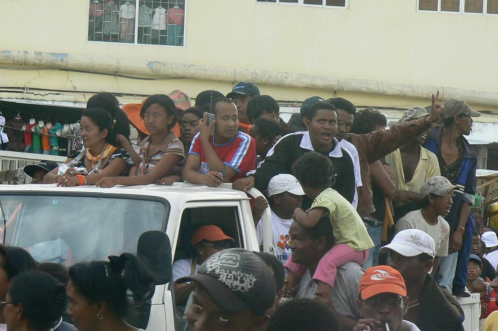 2009 Malagasy political crisis 2009,1,24 Reprint from Flickr